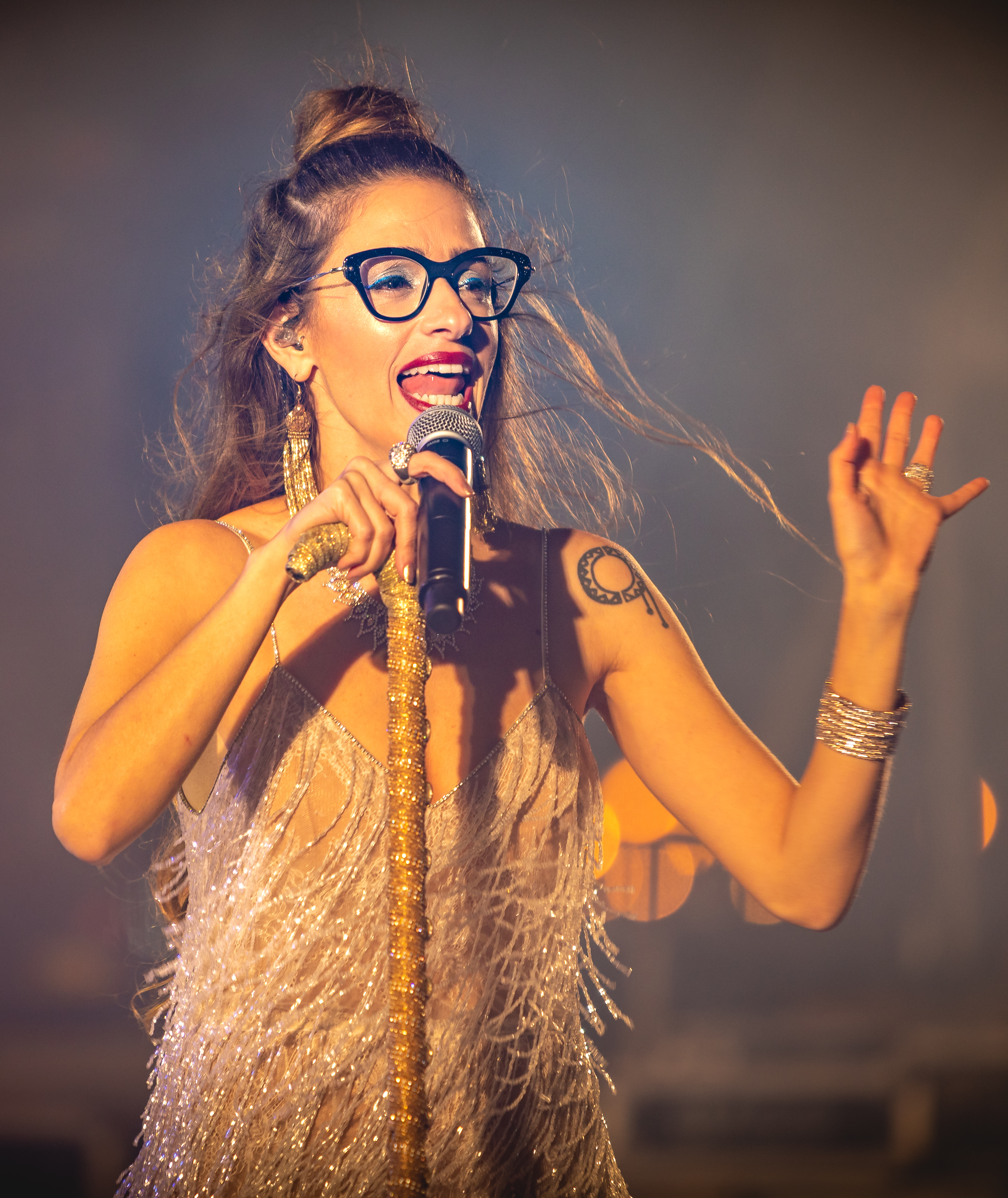 Shefita performing on Yom Ha'atzmaut (Israel Independence Day), May 8, 2019